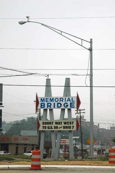 Also Bridges & Tunnels photograph.